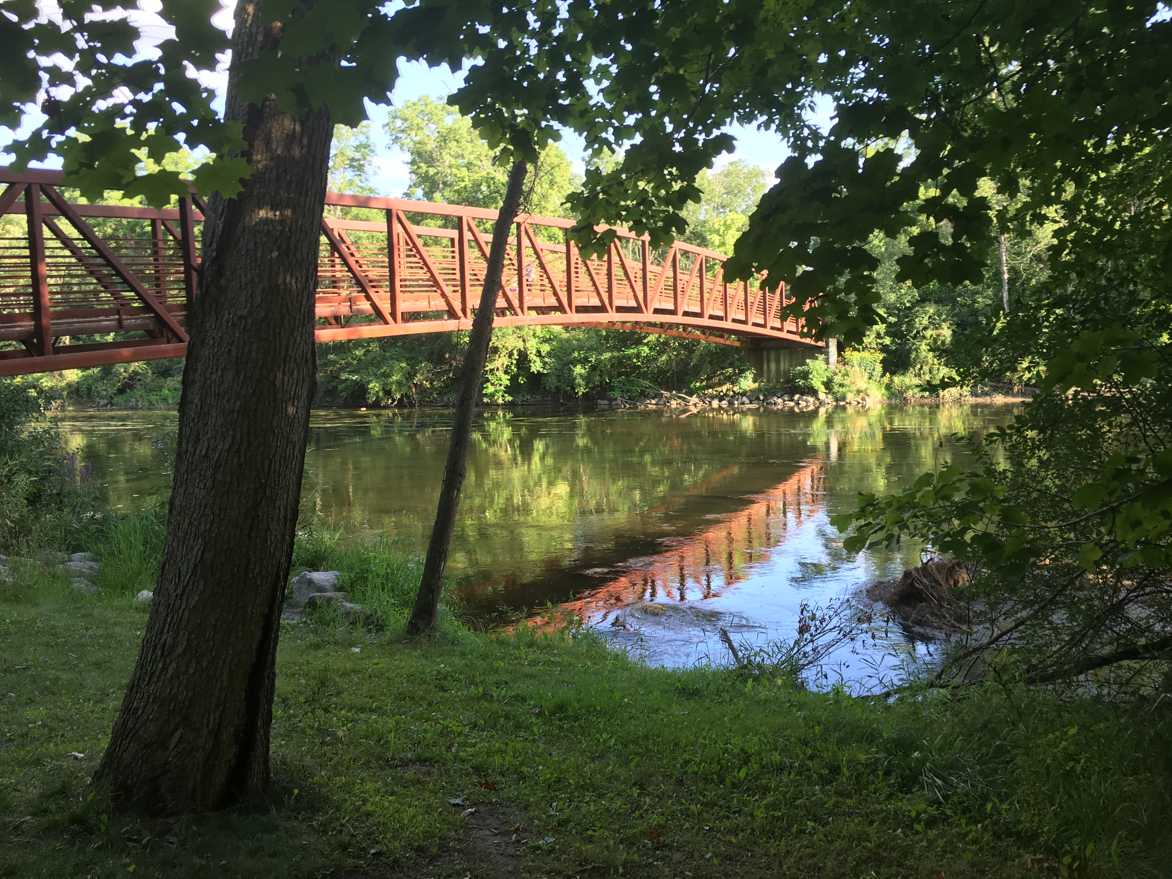 Bridge over Flint River from Flushing Trail Aug 23 2017